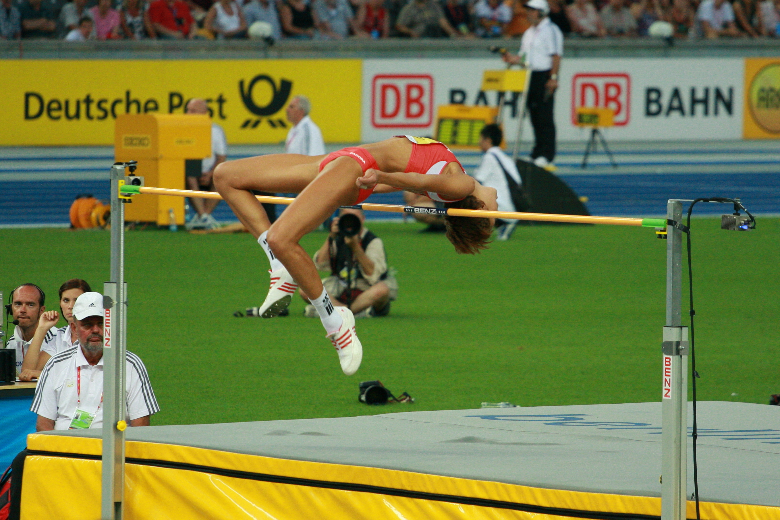 High Jump Final